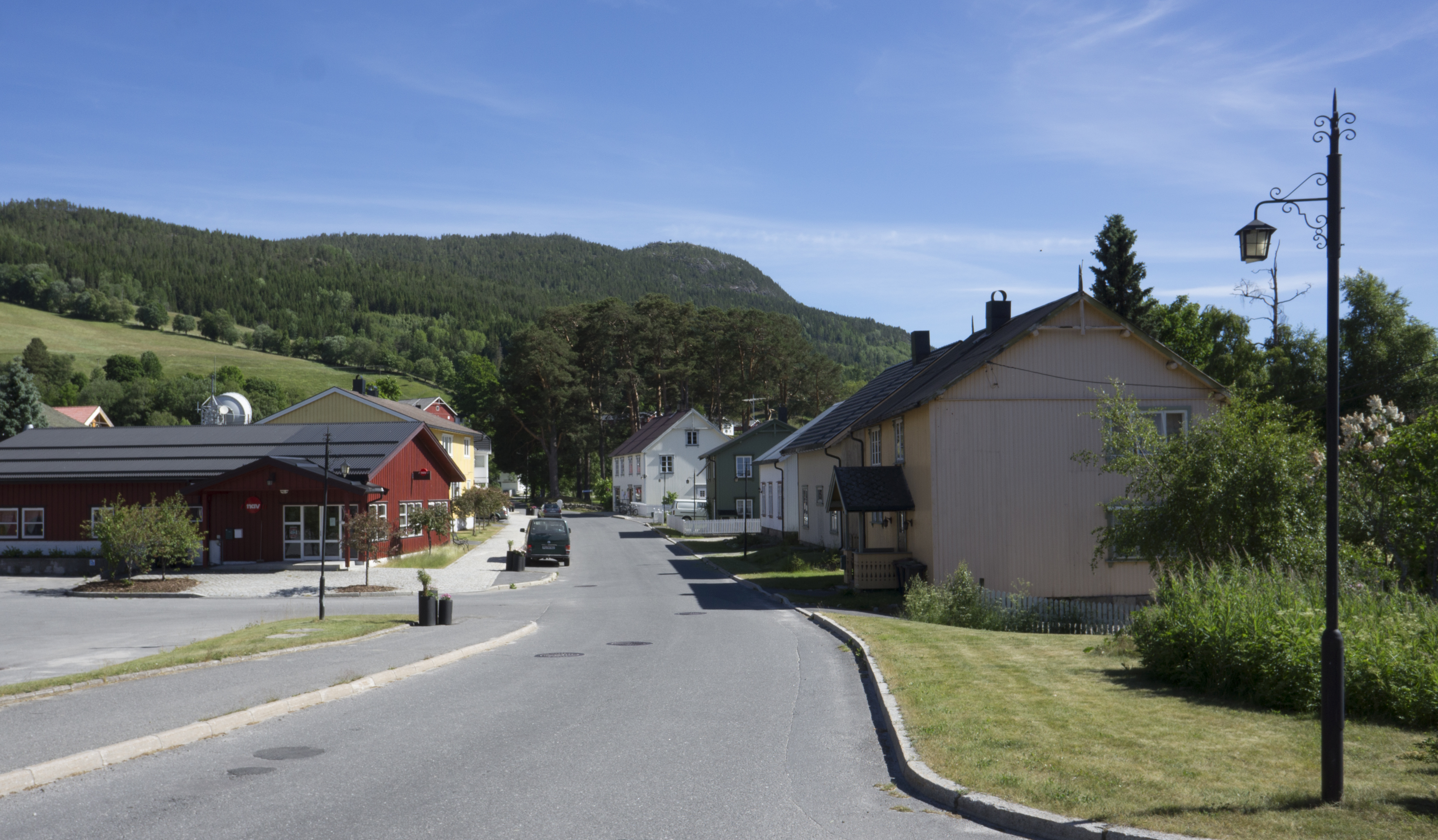 Center of Fyresdal in Telemark, Norway.